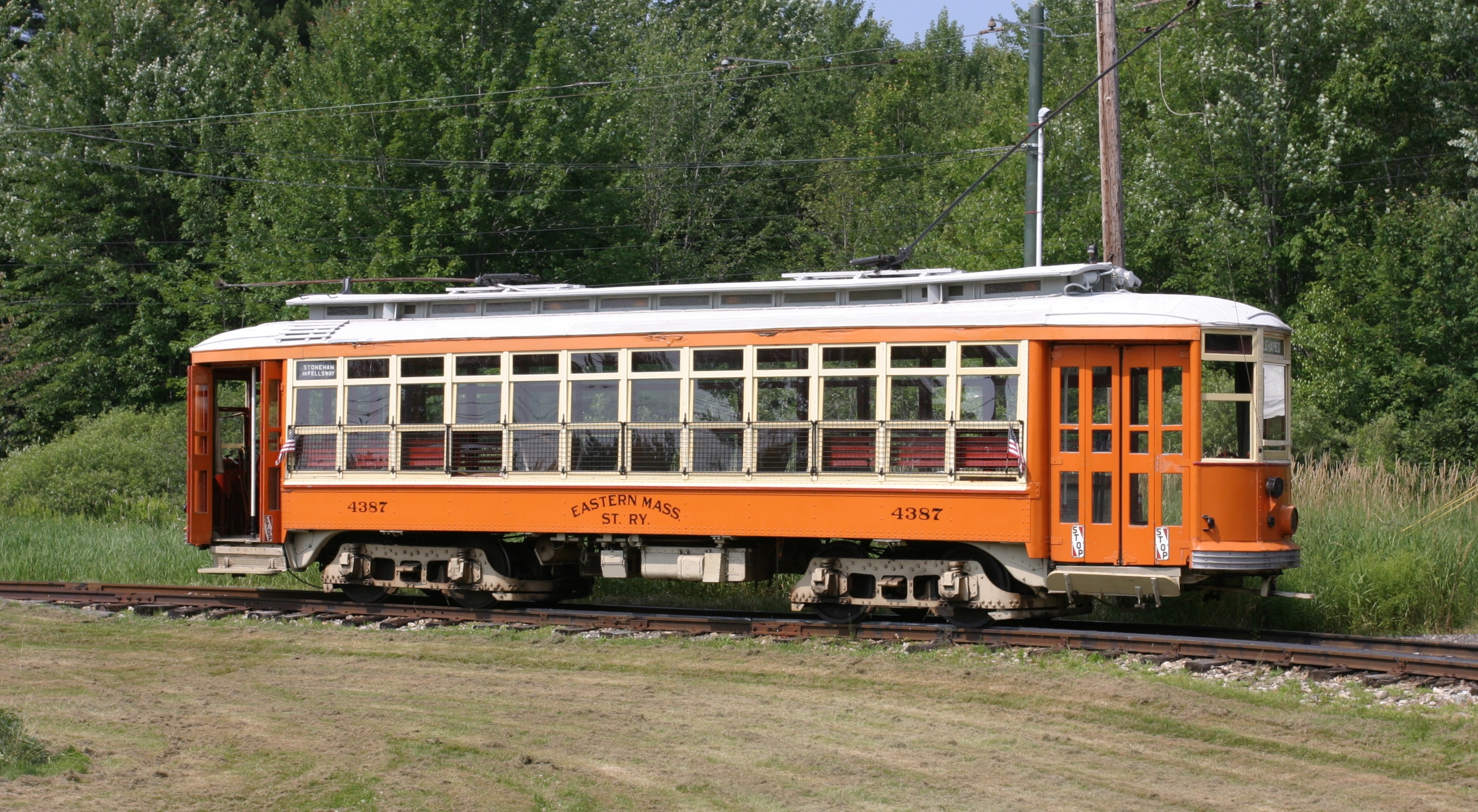 Car 4387 of the Eastern Massachusetts Street Railway, which served the Boston area, operating at the Seashore Trolley Museum, in Kennebunkport, Maine. Car 4387 was built by the Laconia Car Company, in 1918.